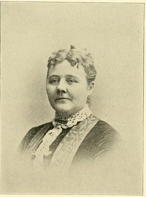 Sarah Doan La Fetra